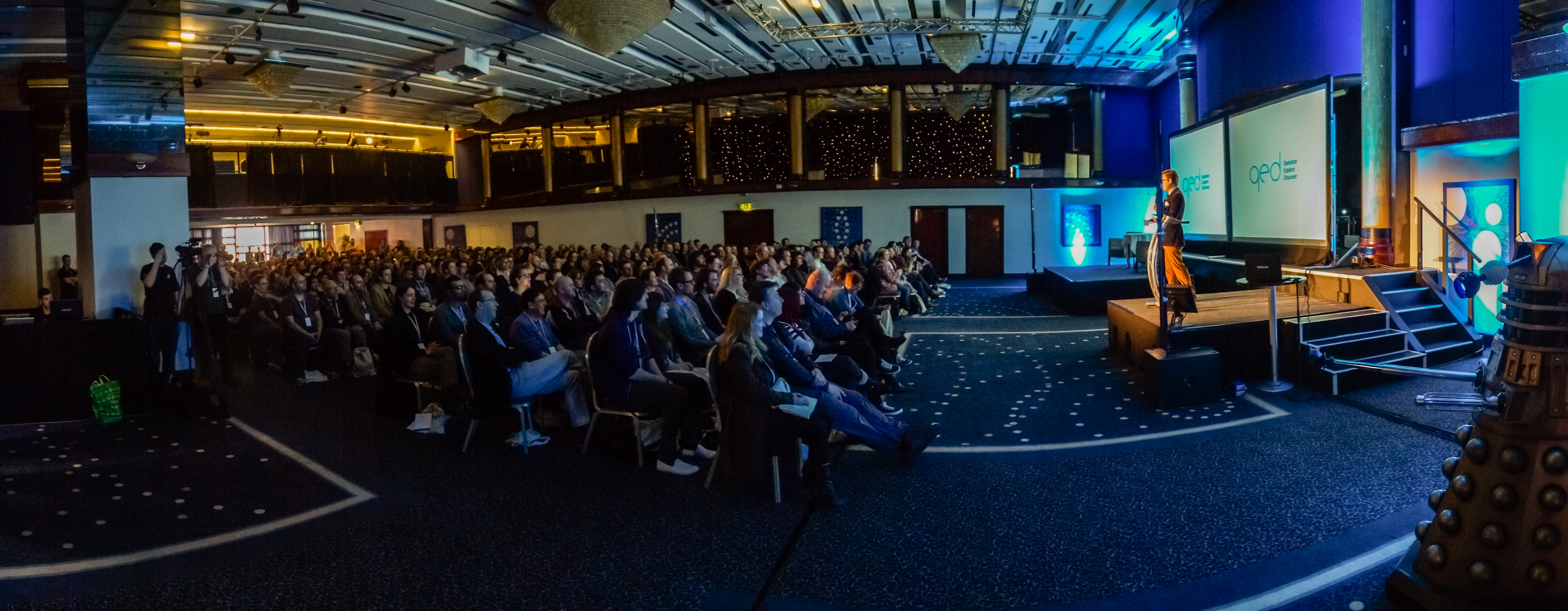 A panorama taken in the Richard Dawkins Foundation room on the first day of the QED: Question, Explore, Discover conference on Saturday 13th April 2013.